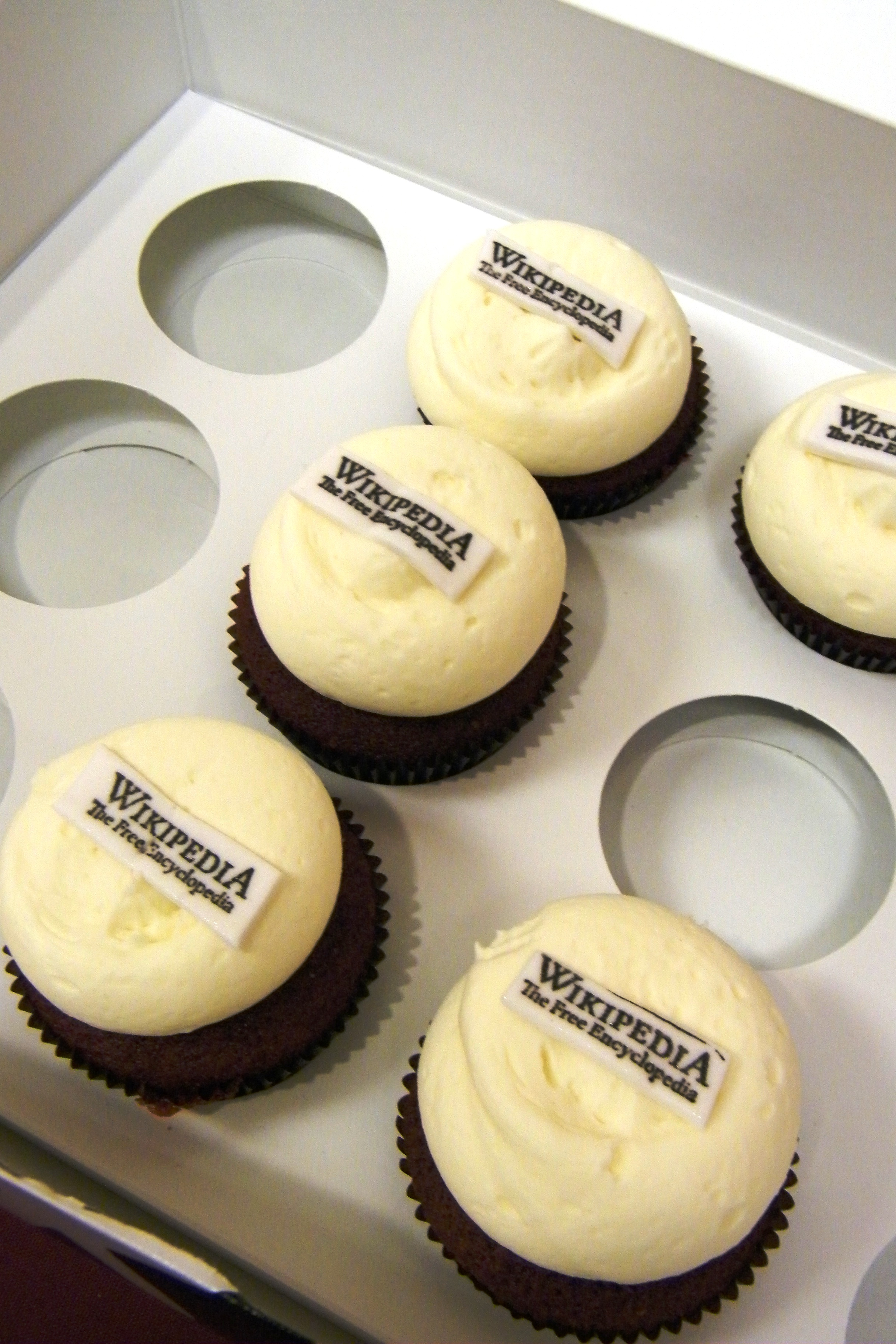 Wikipedia cupcakes, an in-kind donation by Georgetown Cupcake before being devoured by Wikipedians.